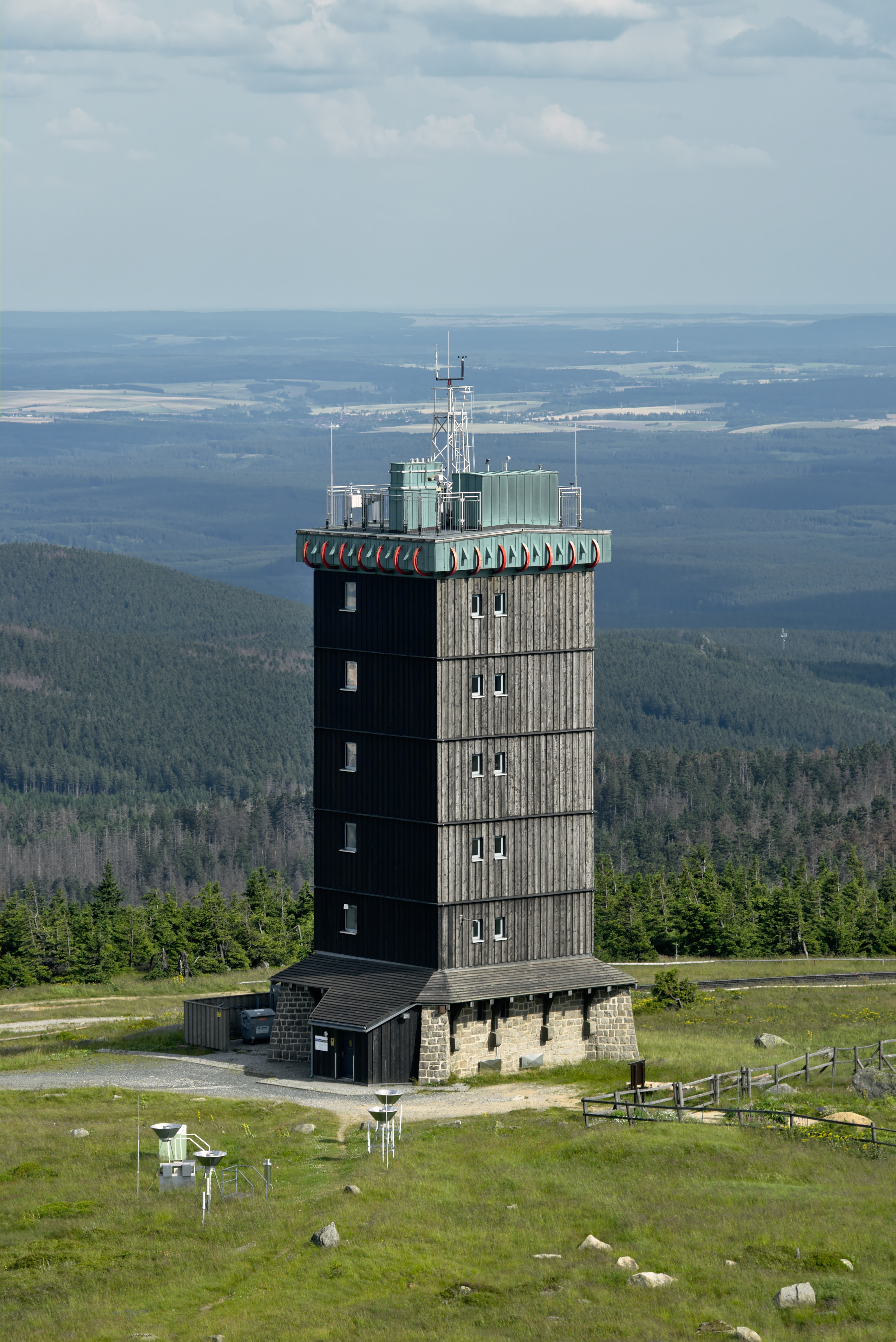 Weather station of the German Meteorological Office on the summit of the Brocken, seen from the Brocken hotel's observation platform.